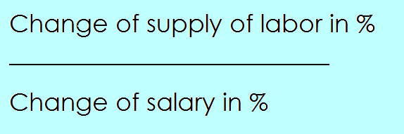 Wage elasticity of supply - formula